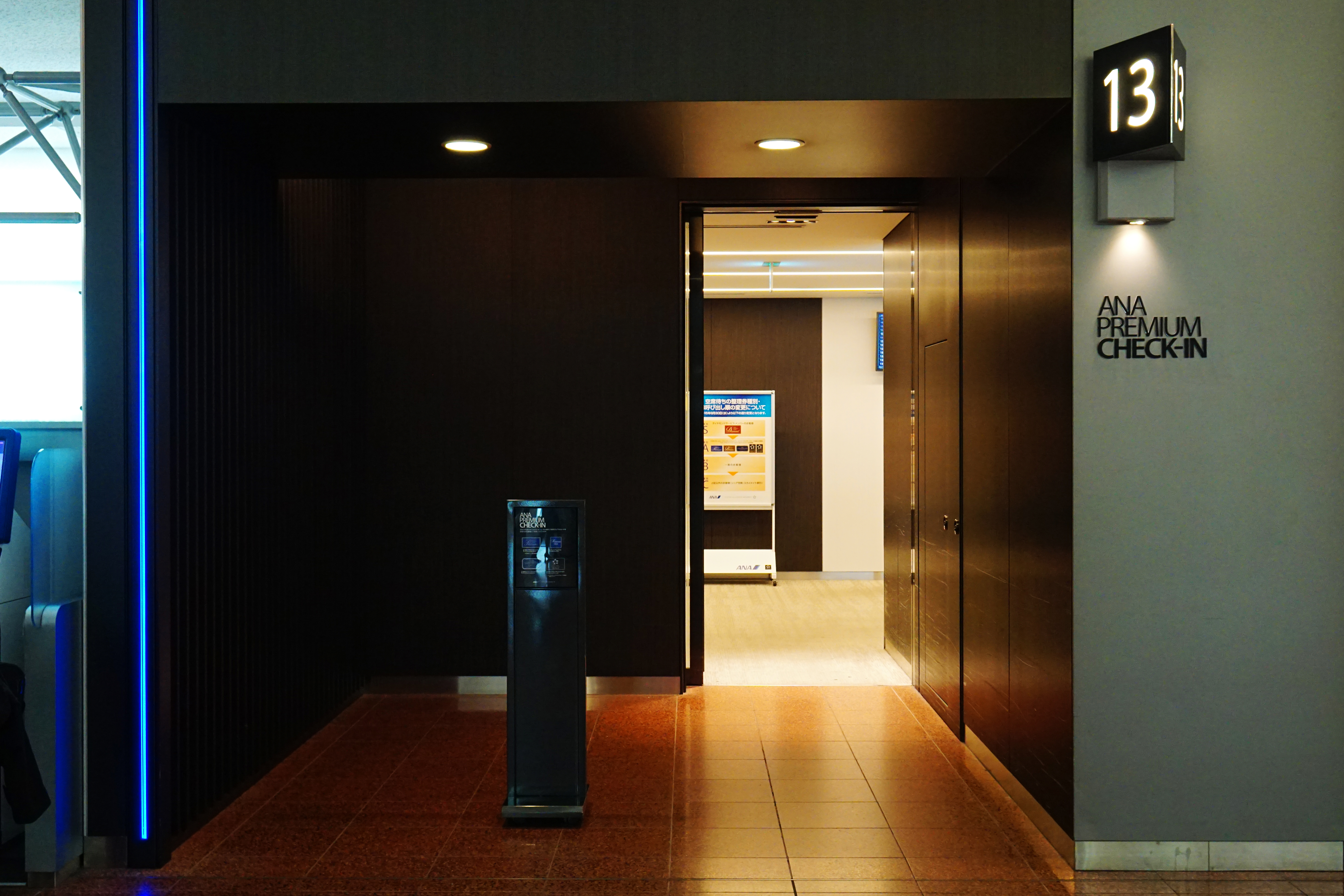 At Tokyo International Airport in Ota-ku, Tokyo, Japan